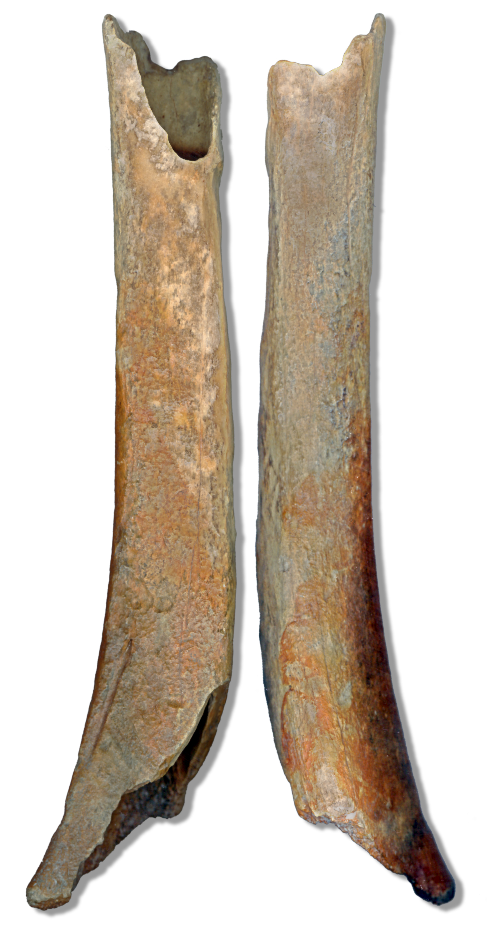 Two sides of the leg bone of Equus przewalskii from the Pleistocene. Found at Worms, Germany.